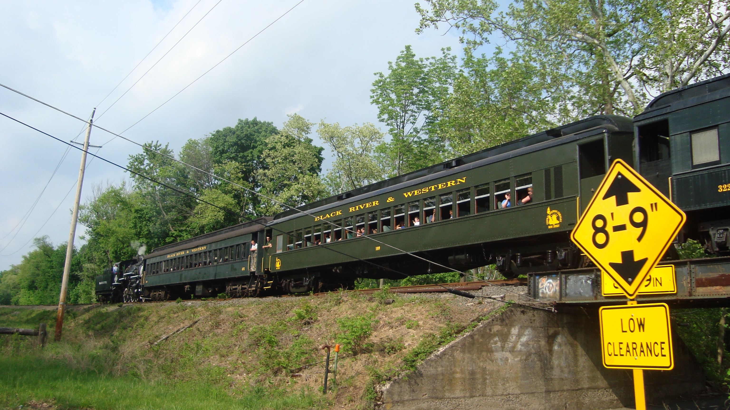 Black River and Western 50th Anniversary